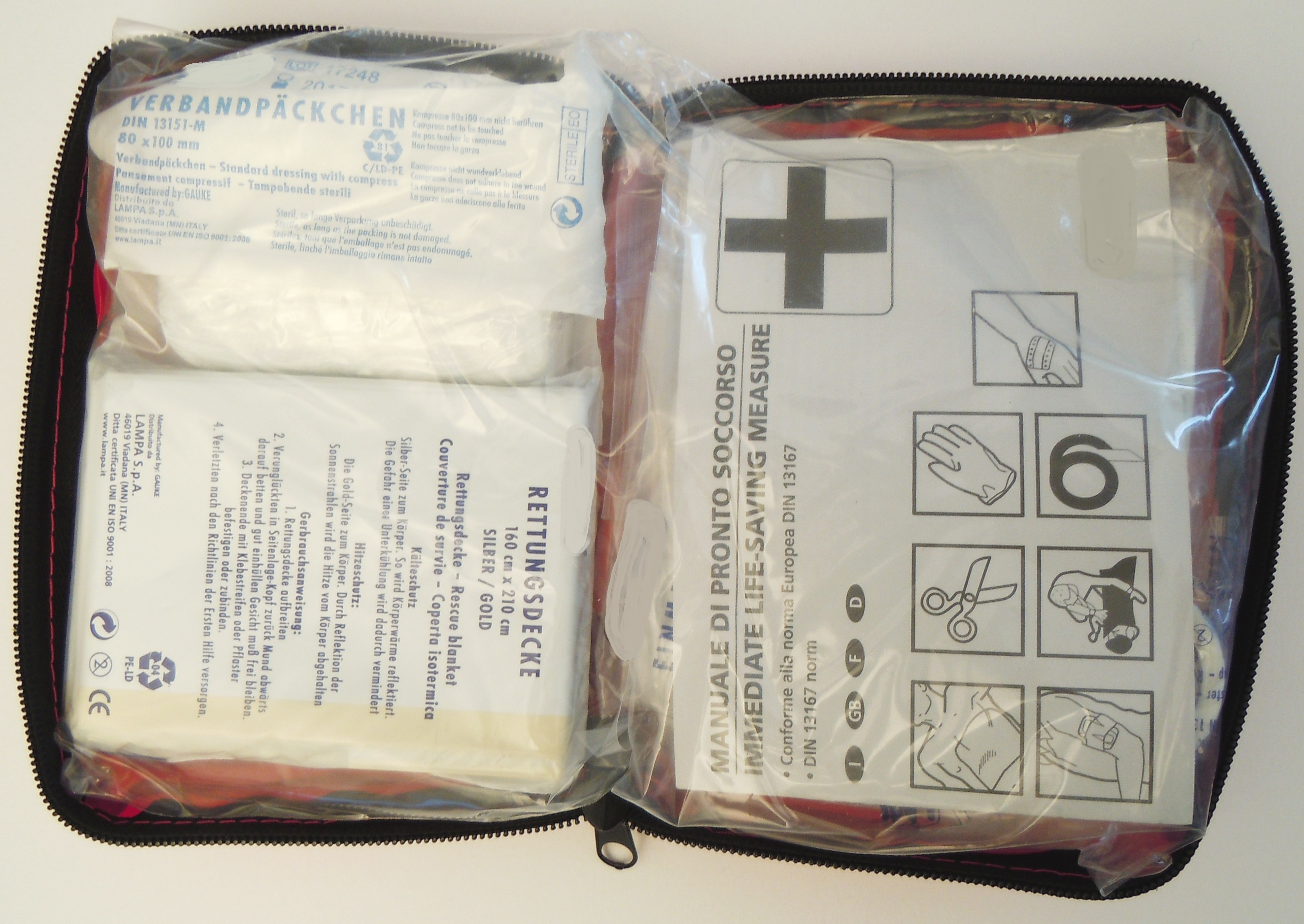 an open bag containing a first-aid kit for cycles and motorcycles, conforming to DIN standard 13167.